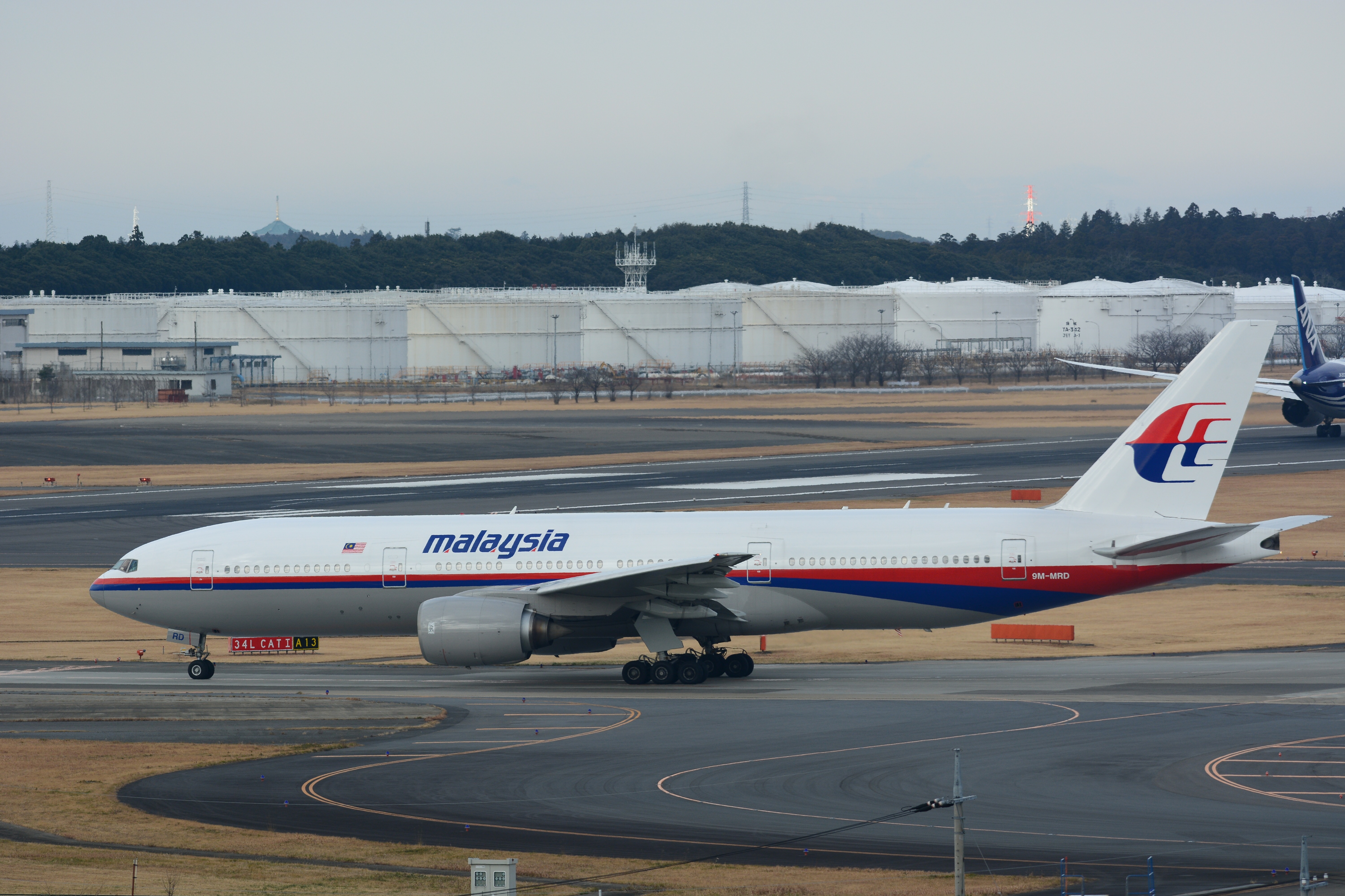 Malaysia Airlines Boeing 777-200 9M-MRD NRT